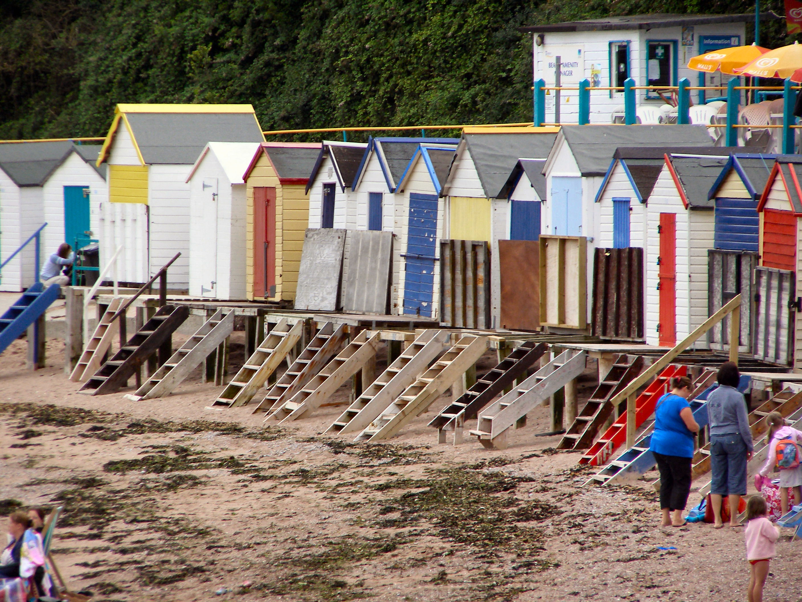 Beach Huts Beach huts and cafe at Corbyn's Beach